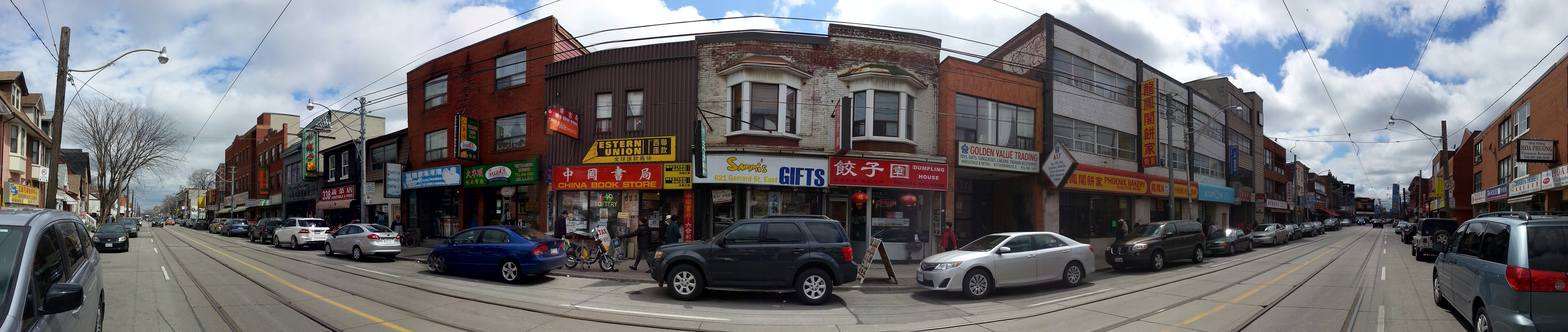 East Chinatown -Toronto, Ontario, Canada. Gerrard Street, east of Broadview avenue, looking south at #621 Gerrard. #617 is right of centre.